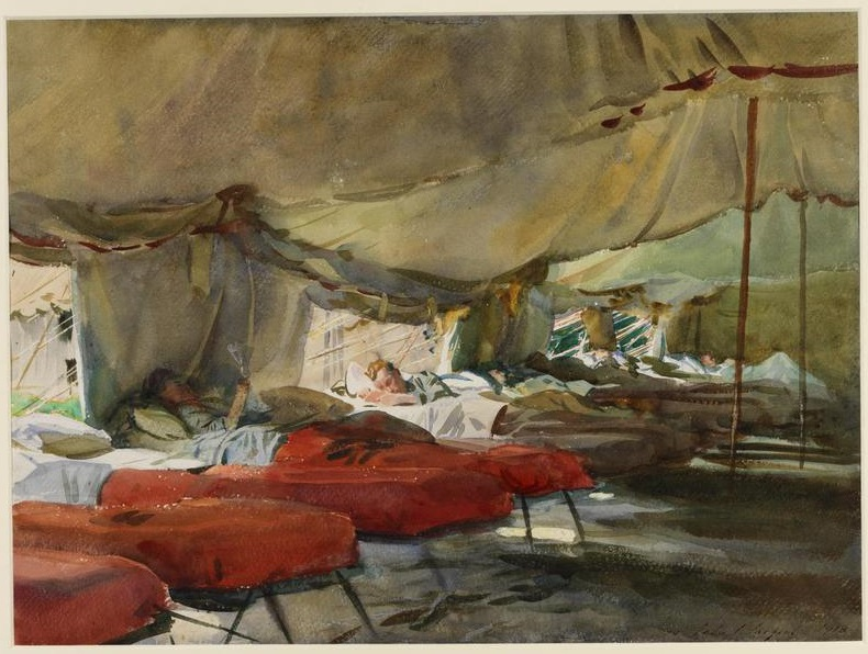 the interior of a hospital tent with campbeds lining the side. Many of the beds are occupied and covered with brown or red blankets. One soldier lies propped up on pillows reading, another sleeps turned on his side the light from the open tent flap falling on his bed.